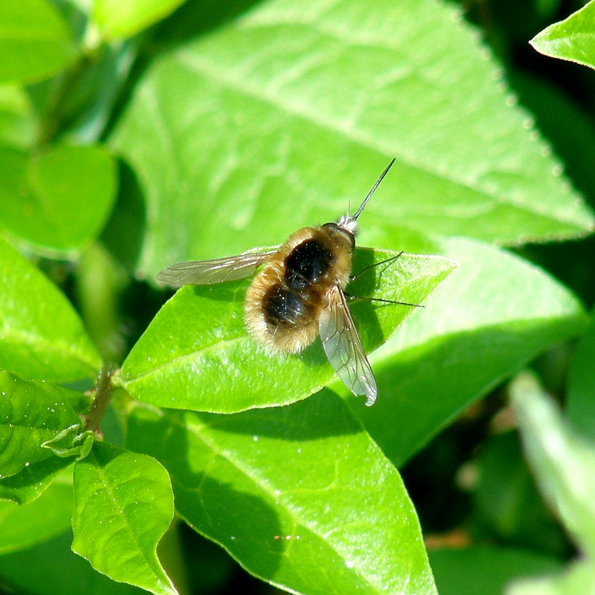 La famille des bombillidés regroupe des mouches très poilues qui semblent recouvertes de fourrure. Elles possèdent une trompe allongée qui leur permet de pomper le nectar en vol stationnaire. All species in the genus share a similarity with the unrelated bees and bumblebees, which they mimic, possessing a thick coat of fur, with a colour ranging from yellow to orange. They can, however, be told apart from their models by the long and stiff proboscis they possess, used for probing for nectar as they fly (much like a hummingbird), by their rapid and darting flight, and by the peculiar structure of their legs. As larvae, they are parasitic and infest the nests of solitary bees, consuming their food stores and grubs. source Wikipedia En grand sur fond noir / Large on black